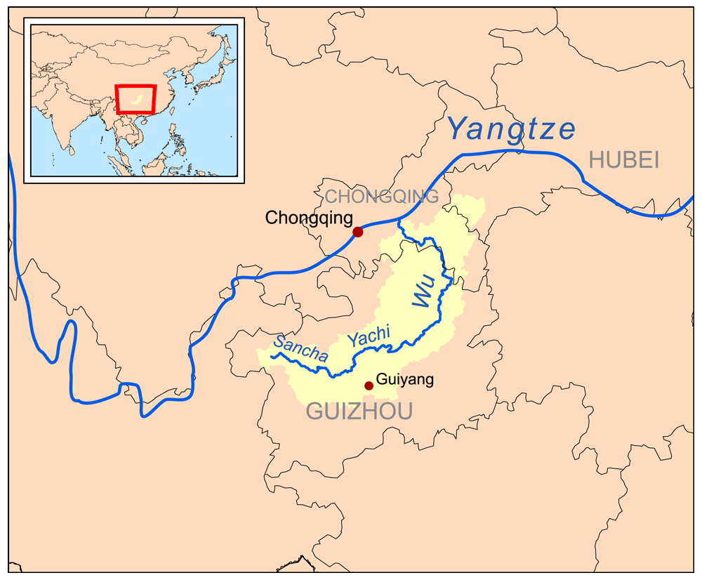 A map of the Wu River drainage basin — in Chongqing, southern China. A Tributary of the Chang Jiang (Yangtze River).